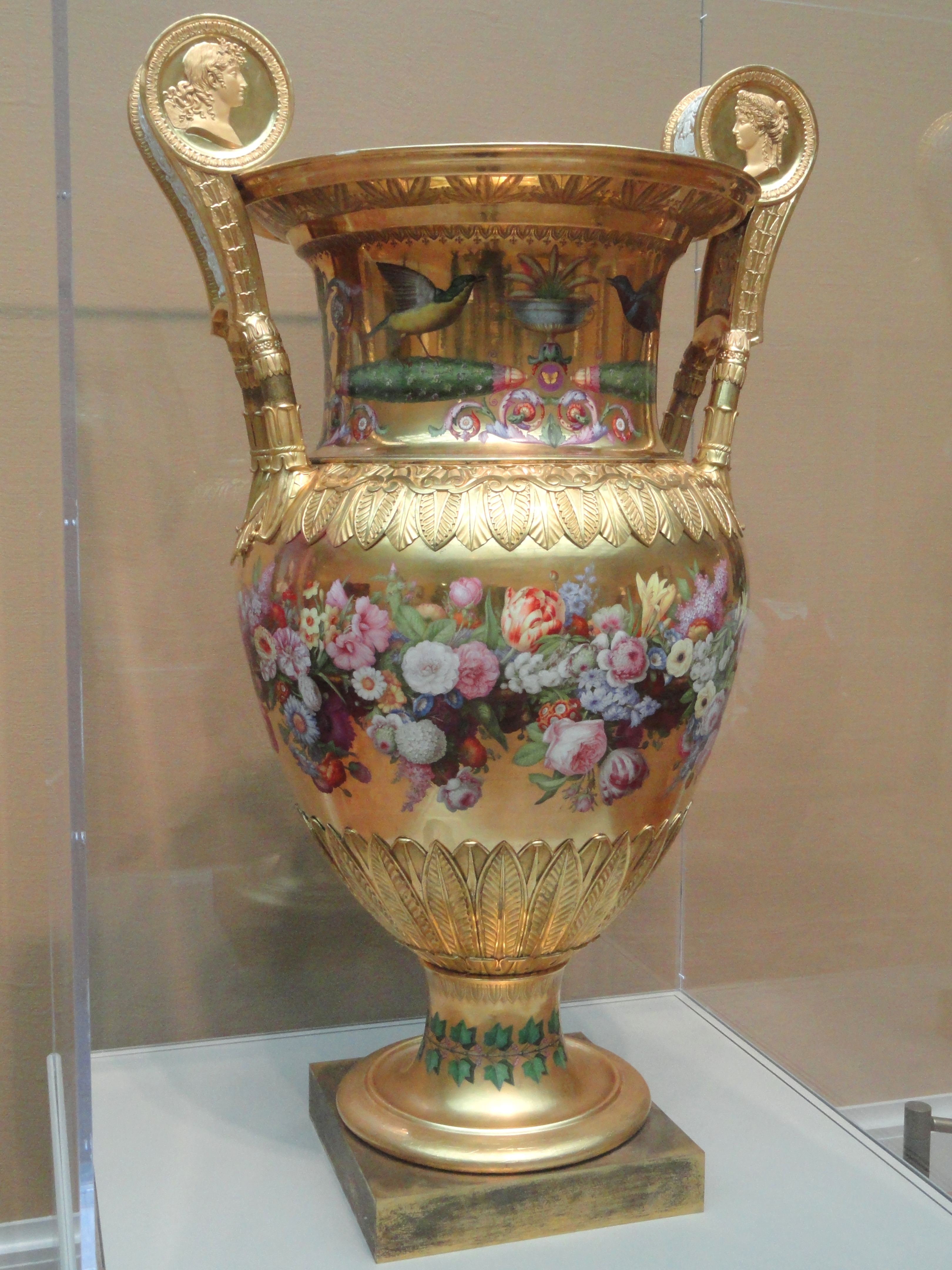 Exhibit in the Art Institute of Chicago, Chicago, Illinois, USA. This artwork is in the public domain because the artist died more than 70 years ago.